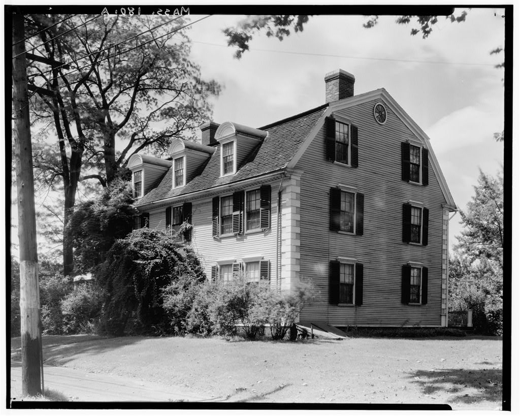 Colonel Benjamin Ruggles Woodbridge House, South Hadley, Hampshire County. Also known as ‘Sycamores’ , it served as a dormitory for Mount Holyoke College from 1915-1970. Benjamin Ruggles Woodbridge Mount Holyoke College